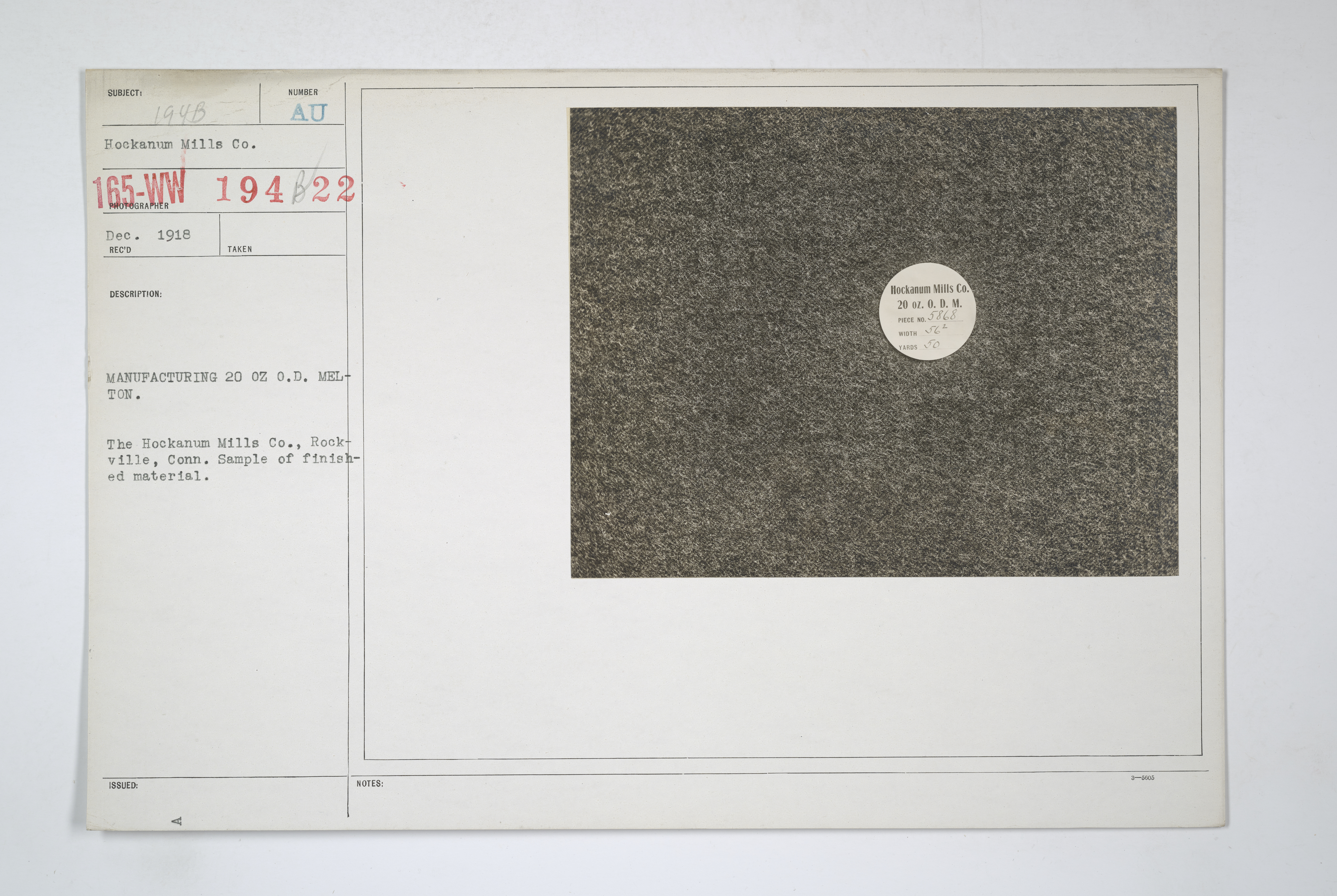 Scope and content: Photographer: Hockanum Mills Co.